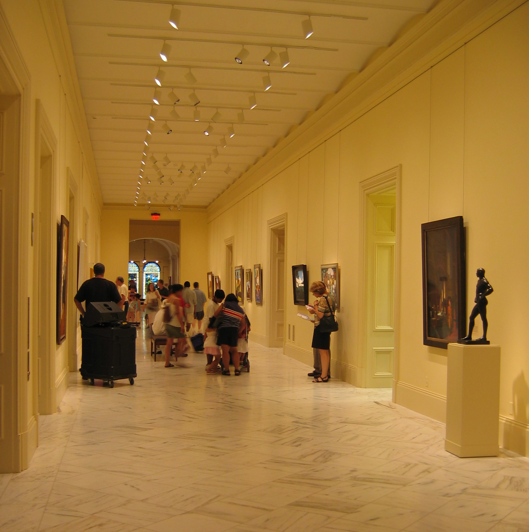 Inside the Smithsonian American Art Museum, located in the Old Patent Office Building, in Washington, D.C. Photo taken during re-opening weekend, on July 1, 2006, after six years of renovations that had the museum closed. Photo by Aude